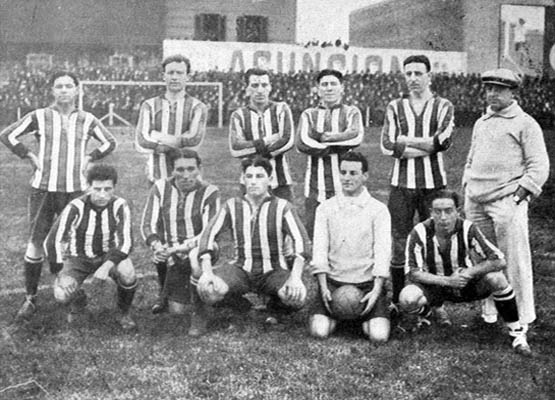 Argentine Club River Plate football squad in 1914. That year the club won its first titles, domestic "Copa de Competencia Jockey Club" and international "Tie Cup".